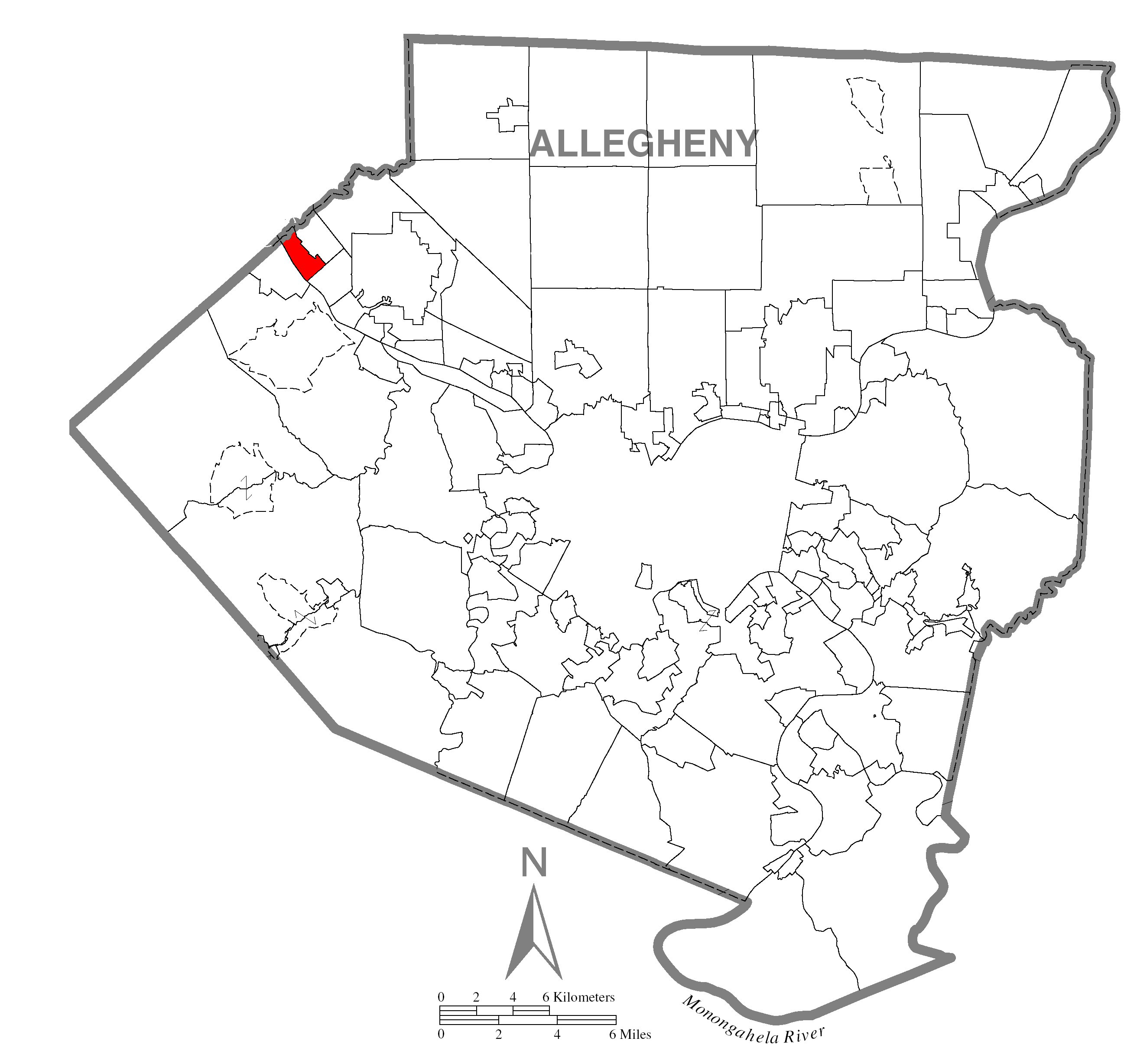 A map of Allegheny County showing Leetsdale, Pennsylvania (alternate) highlighted on the map.